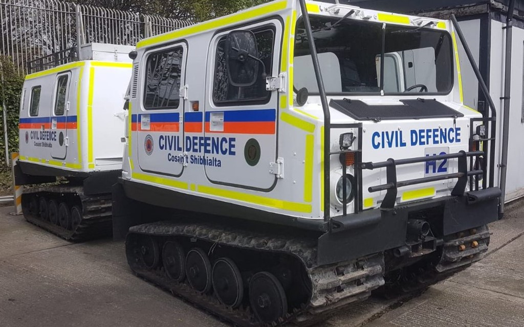 Dublin Civil Defence Hagglund tracked vehicle.